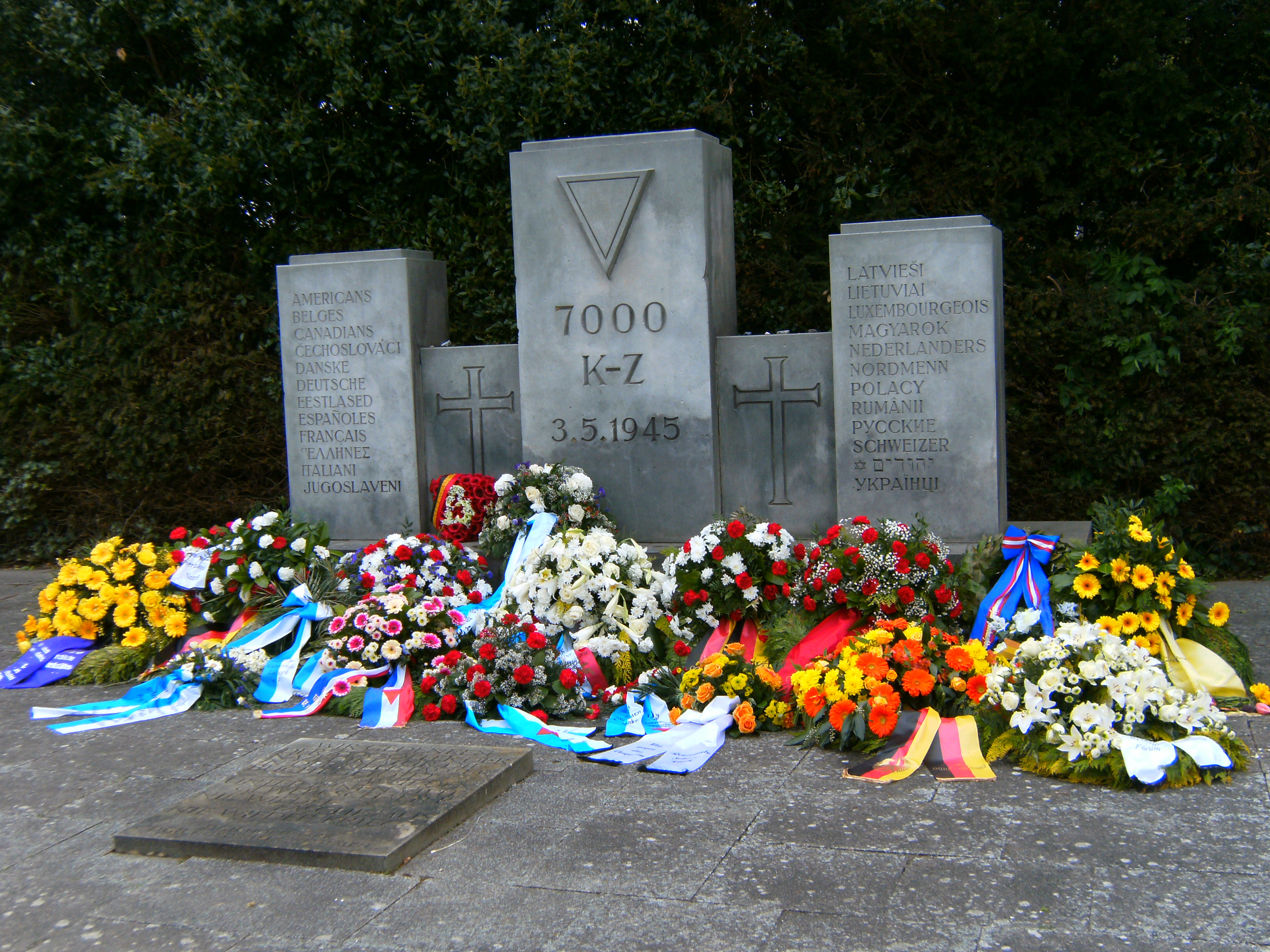 Memorial Stone at Ehrenfriedhof (cemetery) Cap Arcona in Neustadt in Holstein to remember the 7000 killed victims. 70 years passed. Whole picture.